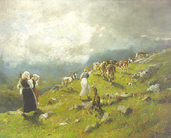 Primavera in alta montagna Oil on Canvas Size 47.2 x 59 in. / 120 x 149.9 cm.